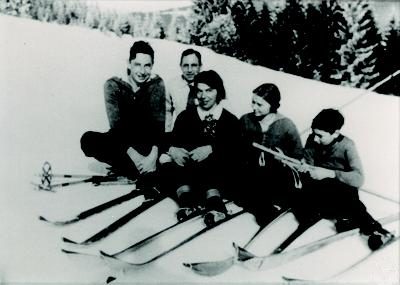 On the Photo: Noether, Herrmann; Noether, Fritz; Noether, Regine; Heisig, Lotte; Heisig, Gottfried — Annotation: im Riesengebirge etwa 1930/31